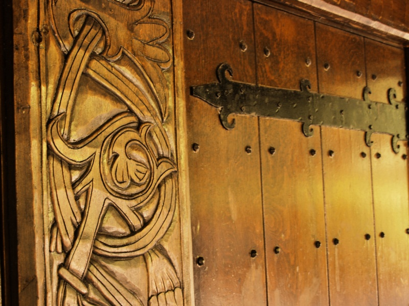 puerta del castillo